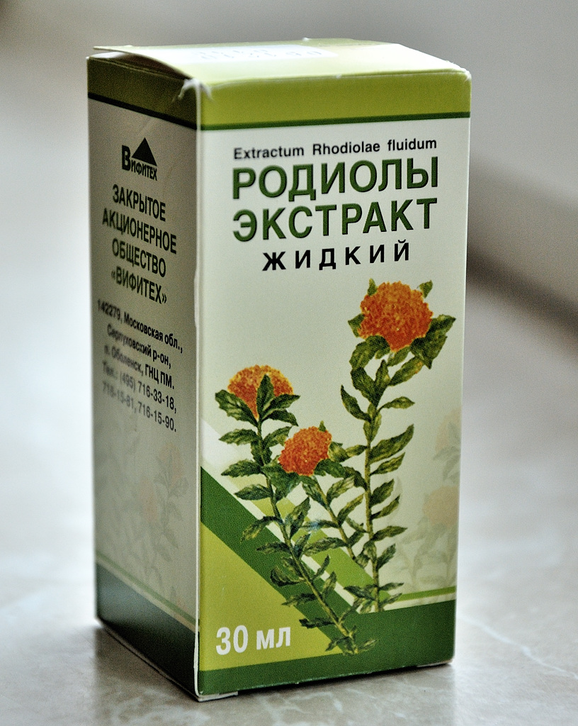 Rhodiola rosea fluid extract